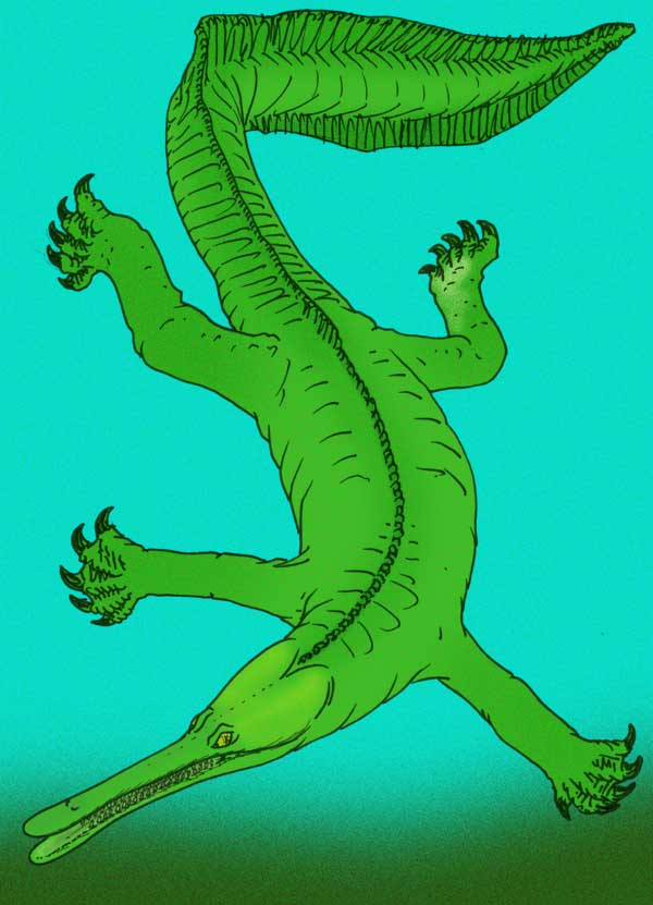 Reconstruction of the Early Cretaceous choristoderan Tchoiria klauseni, of Mongolia